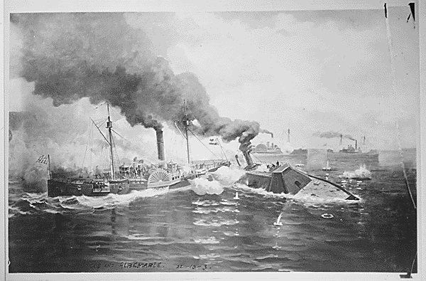 ARC Identifier: 513022 Battle between the Sassacus and the Albemarle, May 1864. Copy of painting. , 1883 - 1966 Still Picture Records LICON, Special Media Archives Services Division (NWCS-S), National Archives at College Park, 8601 Adelphi Road, College Park, MD 20740-6001 PHONE: 301-837-3530, FAX: 301-837-3621